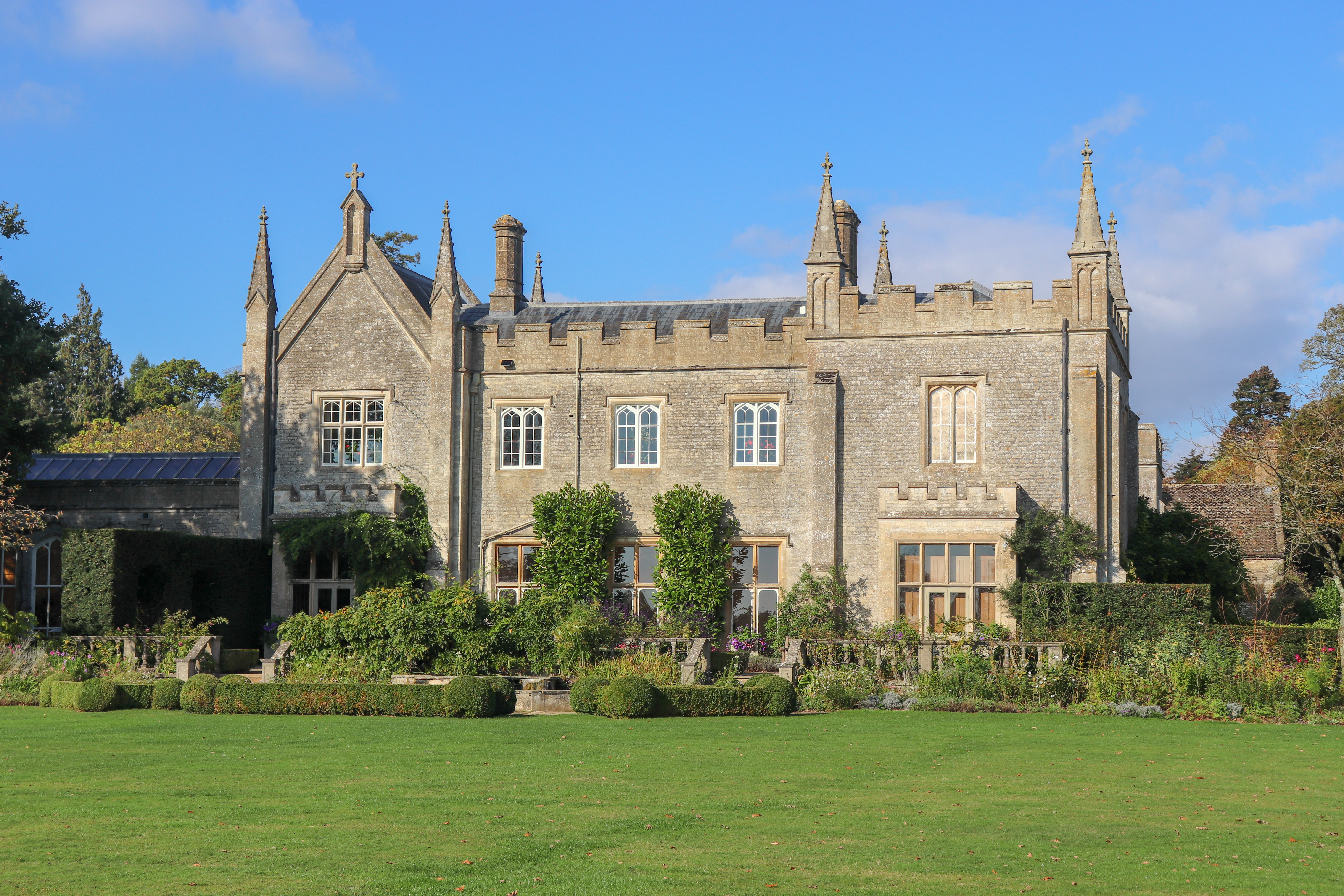 Cotswold Wildlife Park & Gardens Manor House, Burford